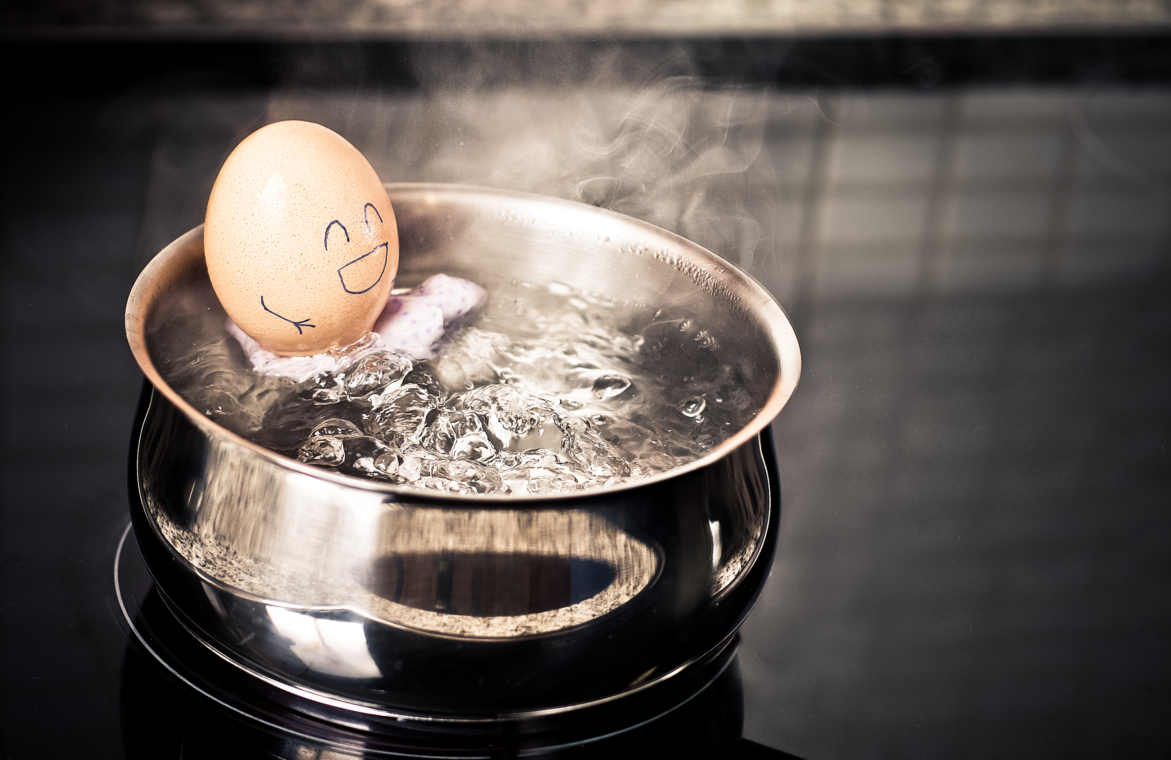 Strobist Info YN-560 a 1/2@24mm con softbox a las 7:00 YN-560 a 1/64@24mm con honeycomb a las 3:00 Trigger: RF-602RX